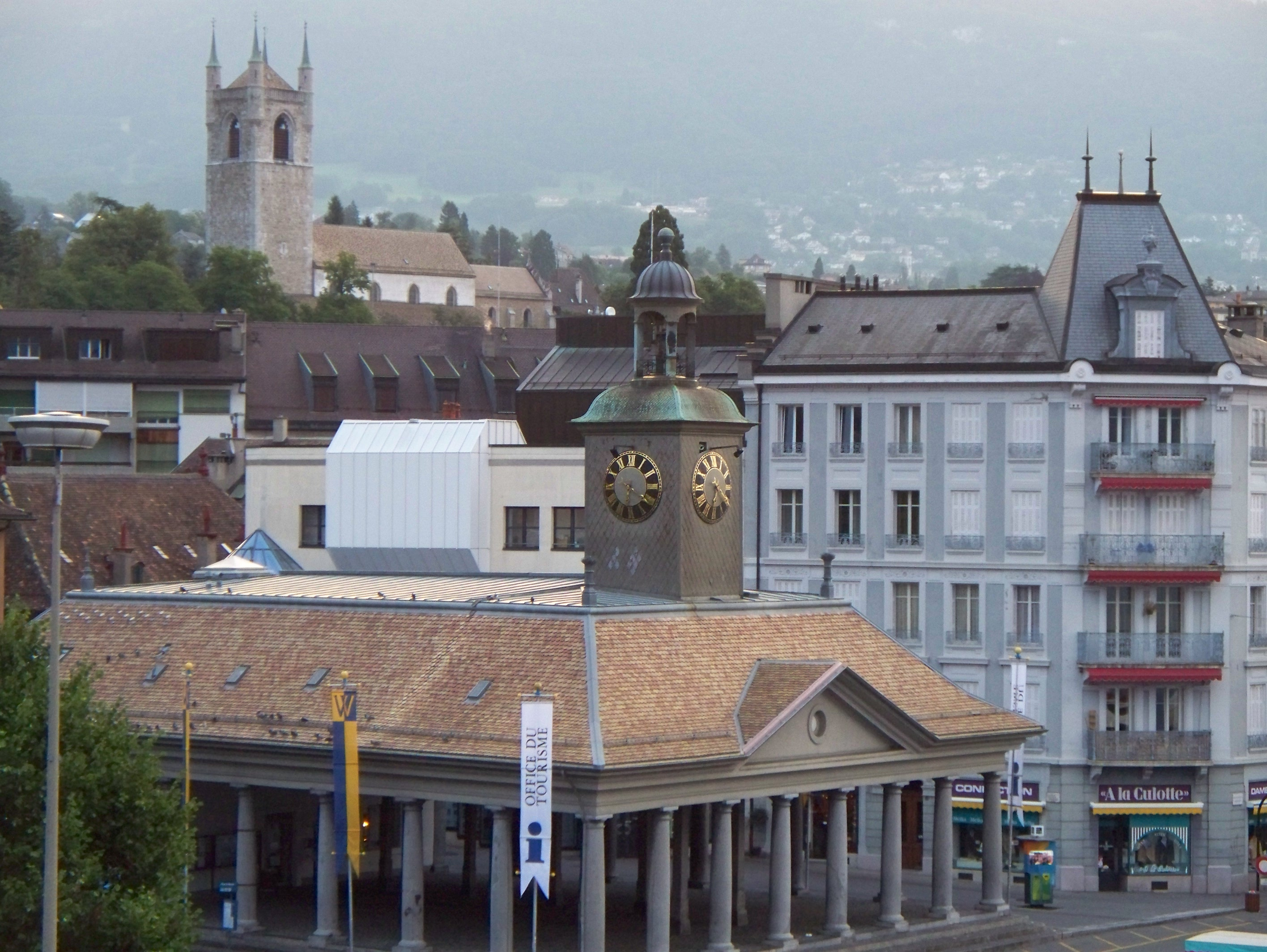 Picture of the Vevey tourism office.